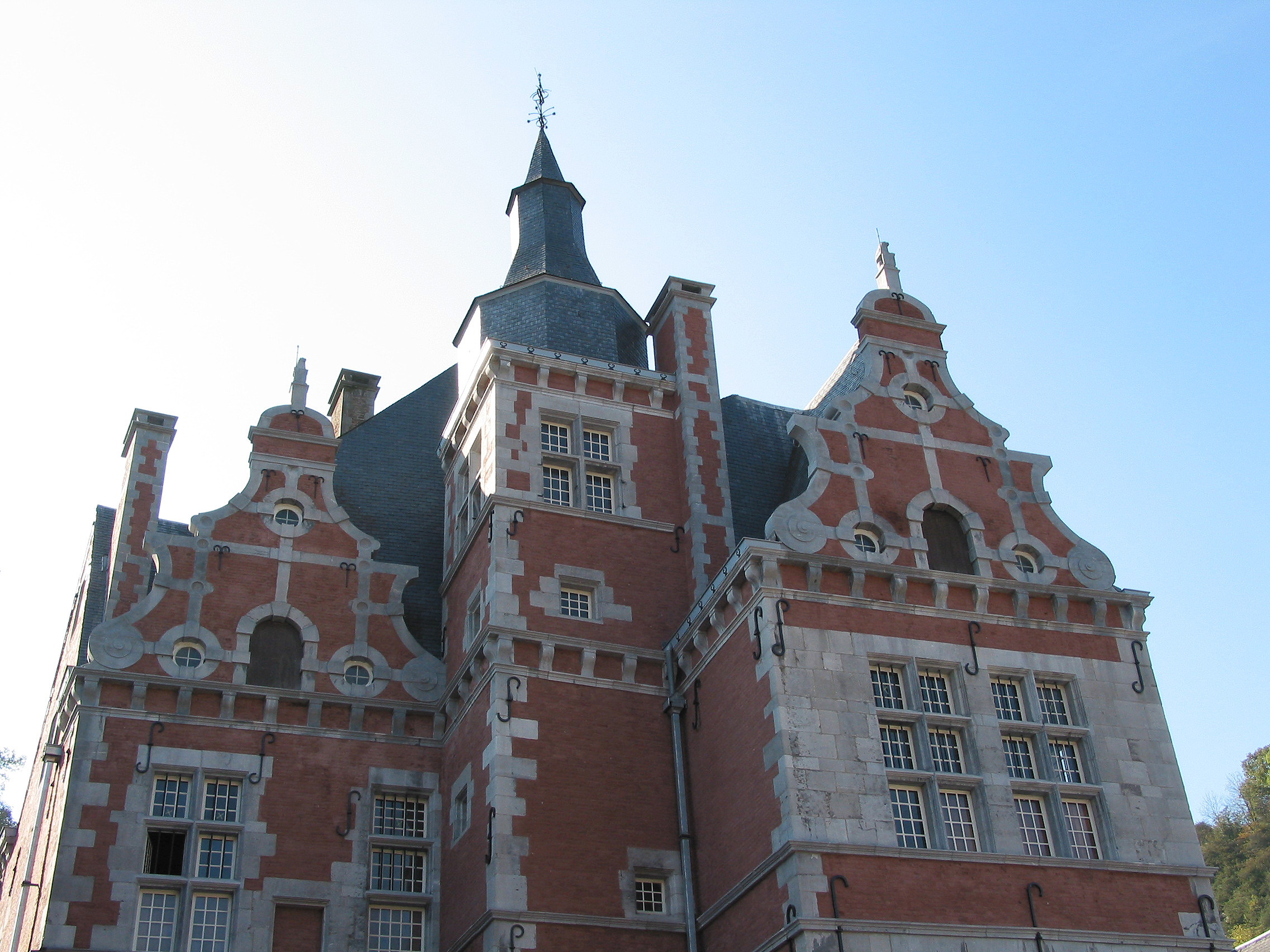 Bouvignes-sur-Meuse (Belgium), the Spanish House (XVIth century).